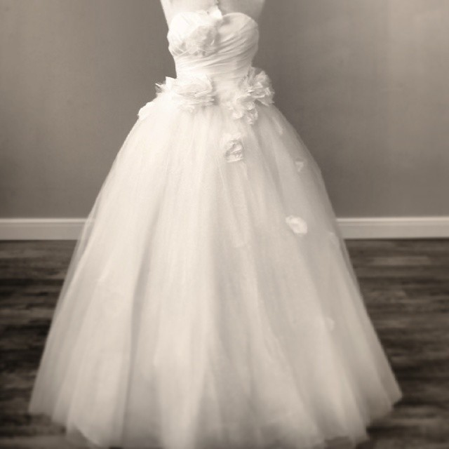 Strapless tulle ball gown with taffeta bodice